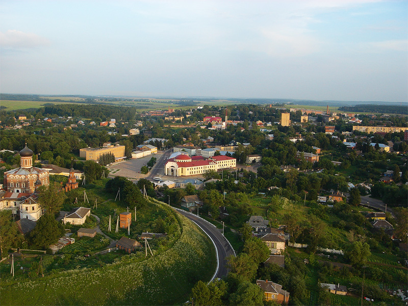 THe Bank; Volokolamsk